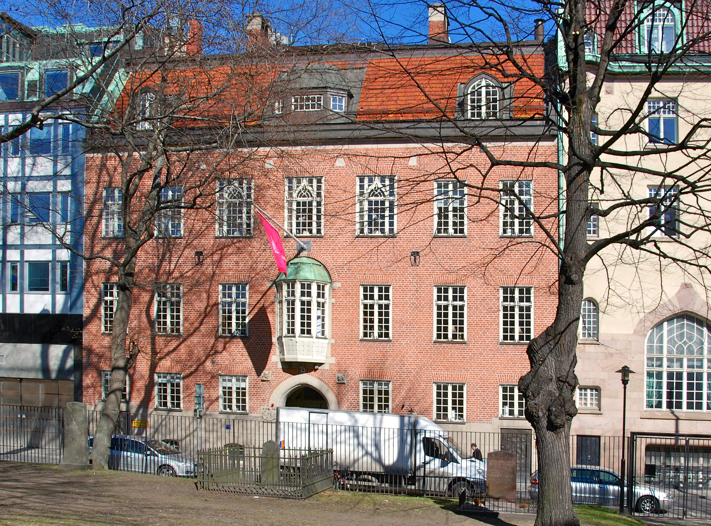 Läkaresällskapets hus